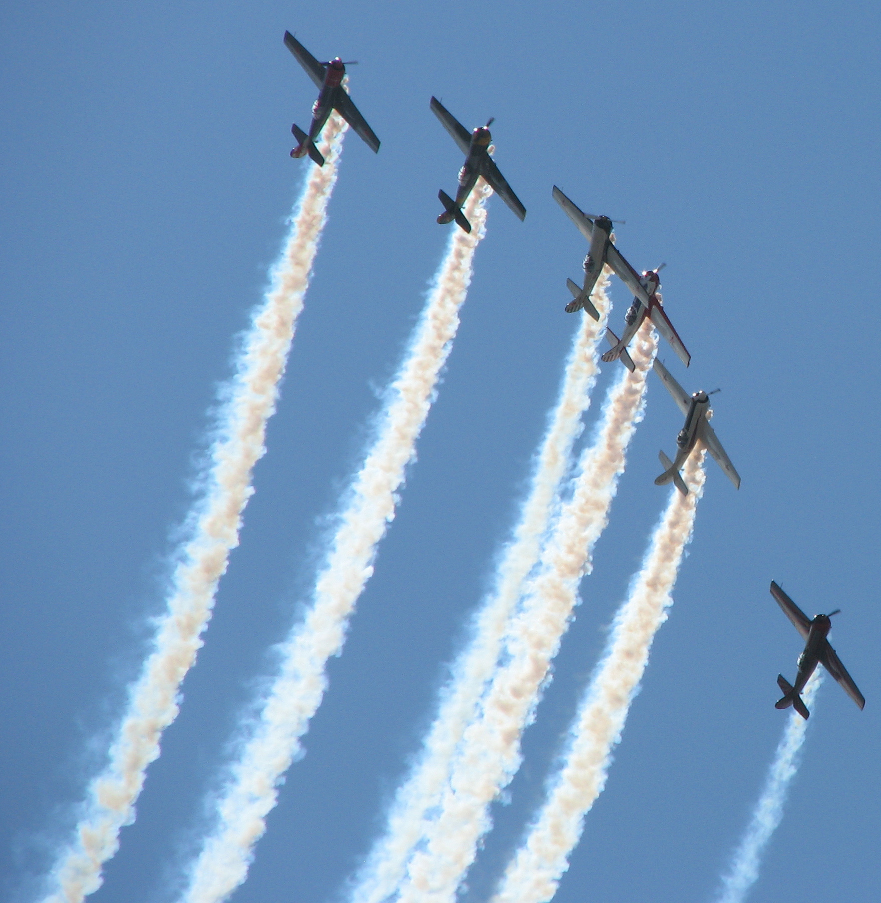 Aerostars Team at Rygge Air Show 2007